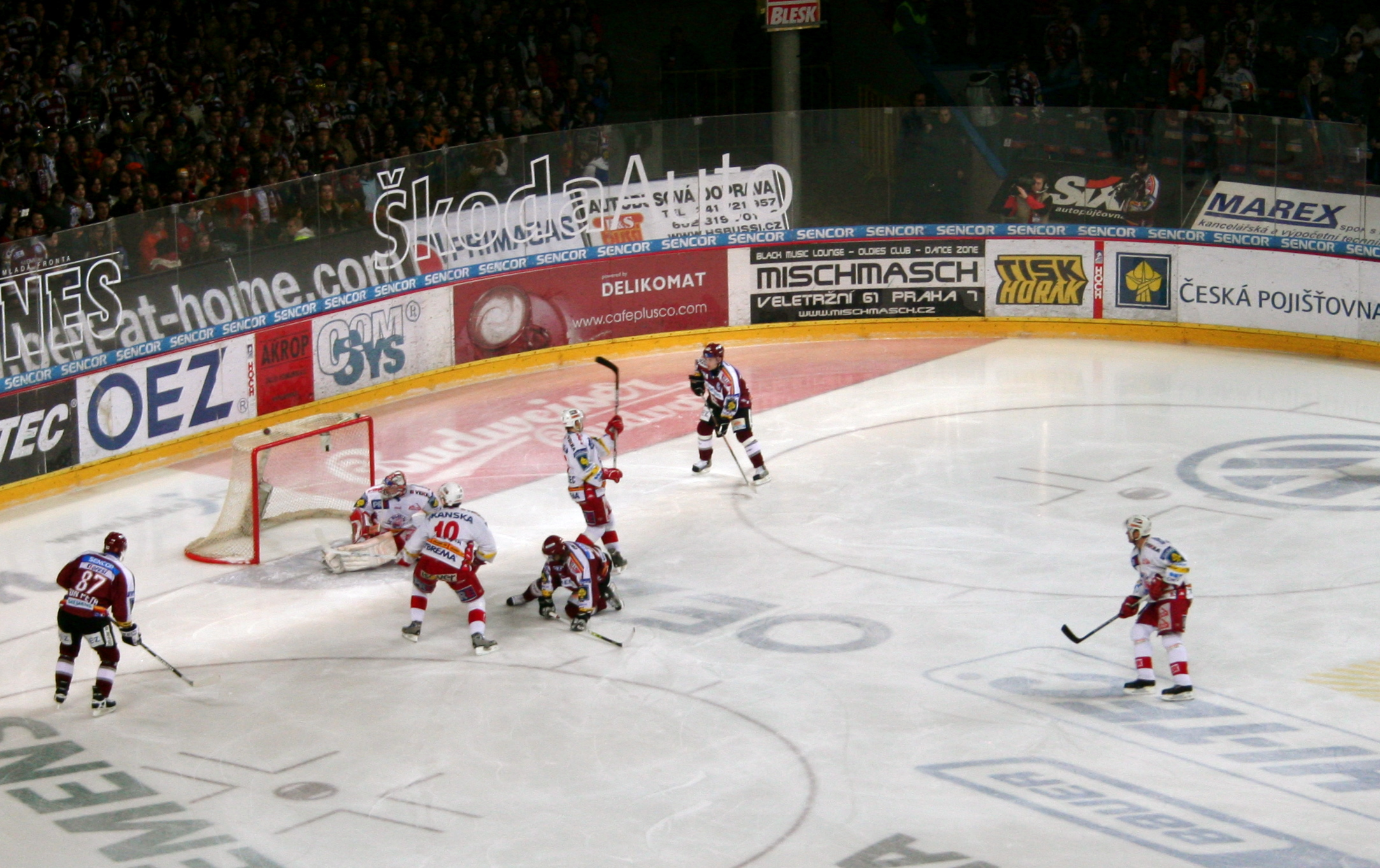 HC Slavia v HC Sparta Prague (local derby) at the T-Mobile Arena, Prague. Slavia wins 4 : 3 #87 Petr Ton scores against Slavia goalie Lukáš Hronek